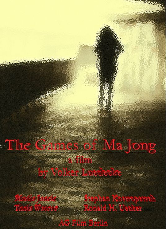 Movie poster for German movie "The Games of Ma Jong".